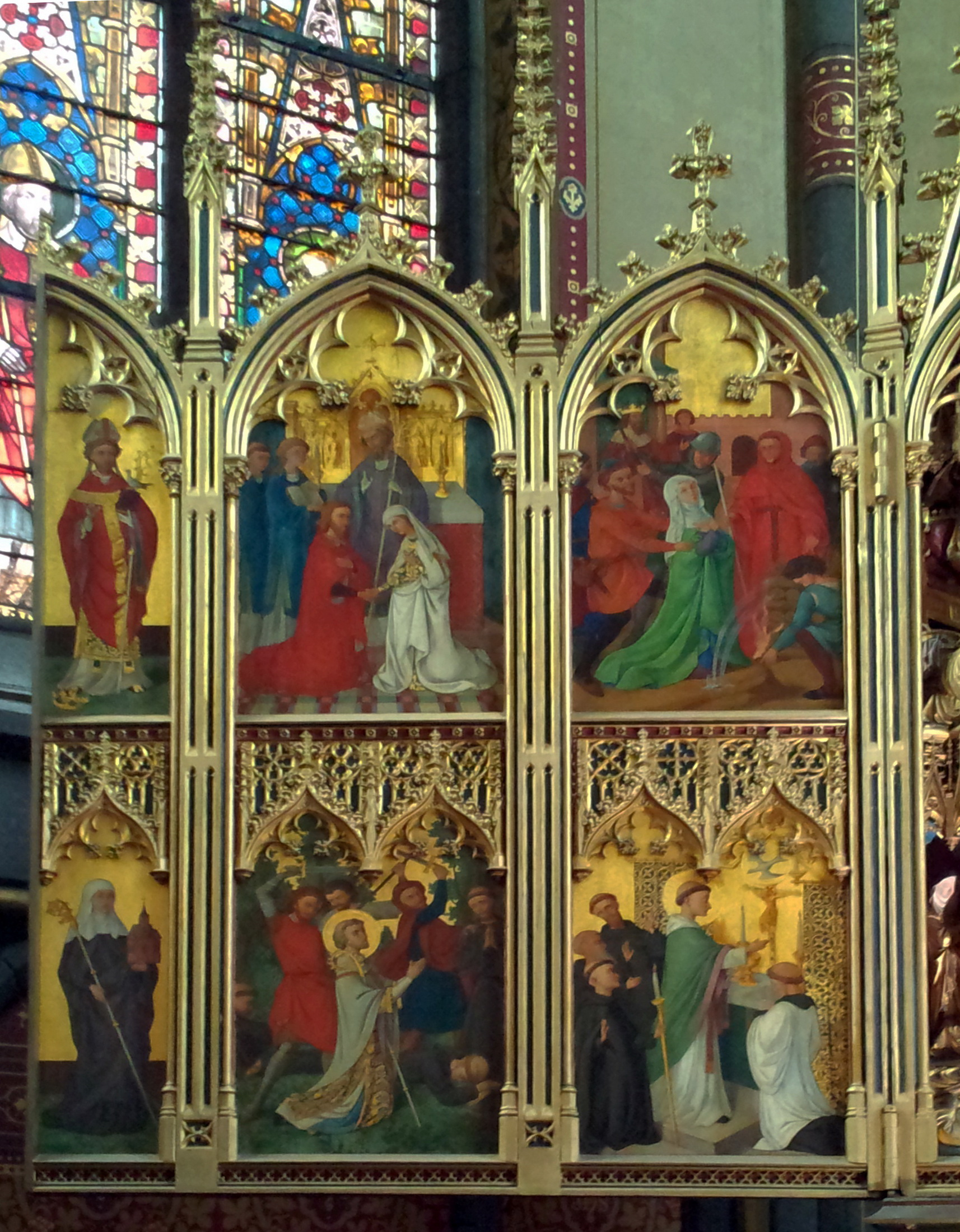 Liège, Belgium. Detail of the Gothic revival altar in the choir of the parish church of Saint Pholien, painted by Jules Helbig with scenes from the life of Saint Foillan.